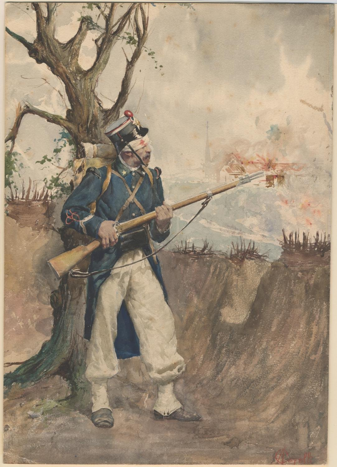 Italian soldier in Custoza (1866)